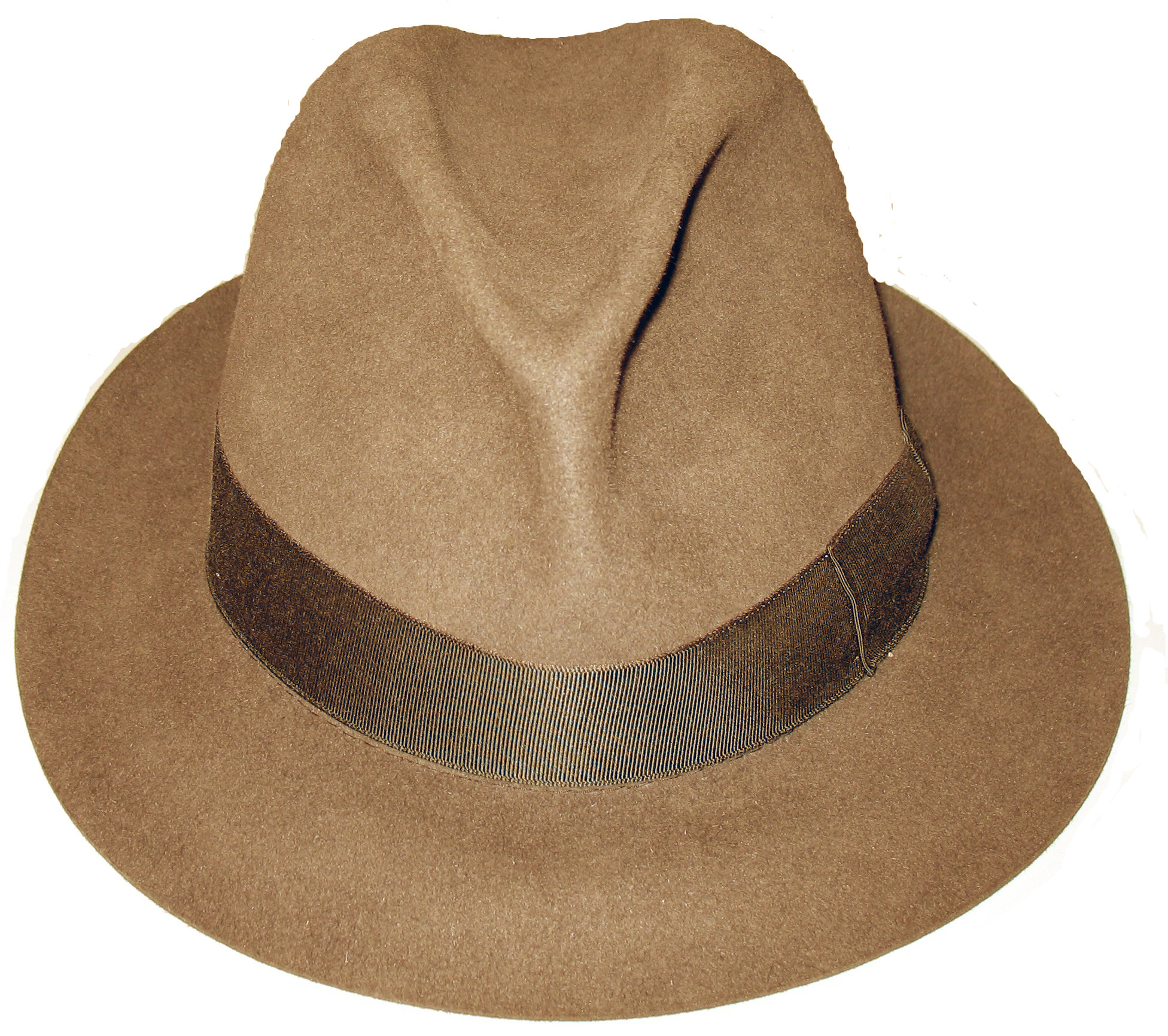 Brown version of grey fedora.